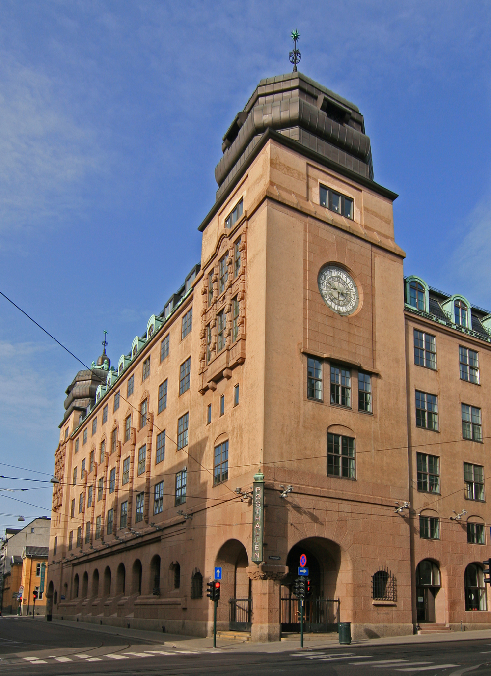 Hovedpostkontoret, Dronningens gate 15, Oslo. Built 1914-1918; architect Rudolf Jacobsen.